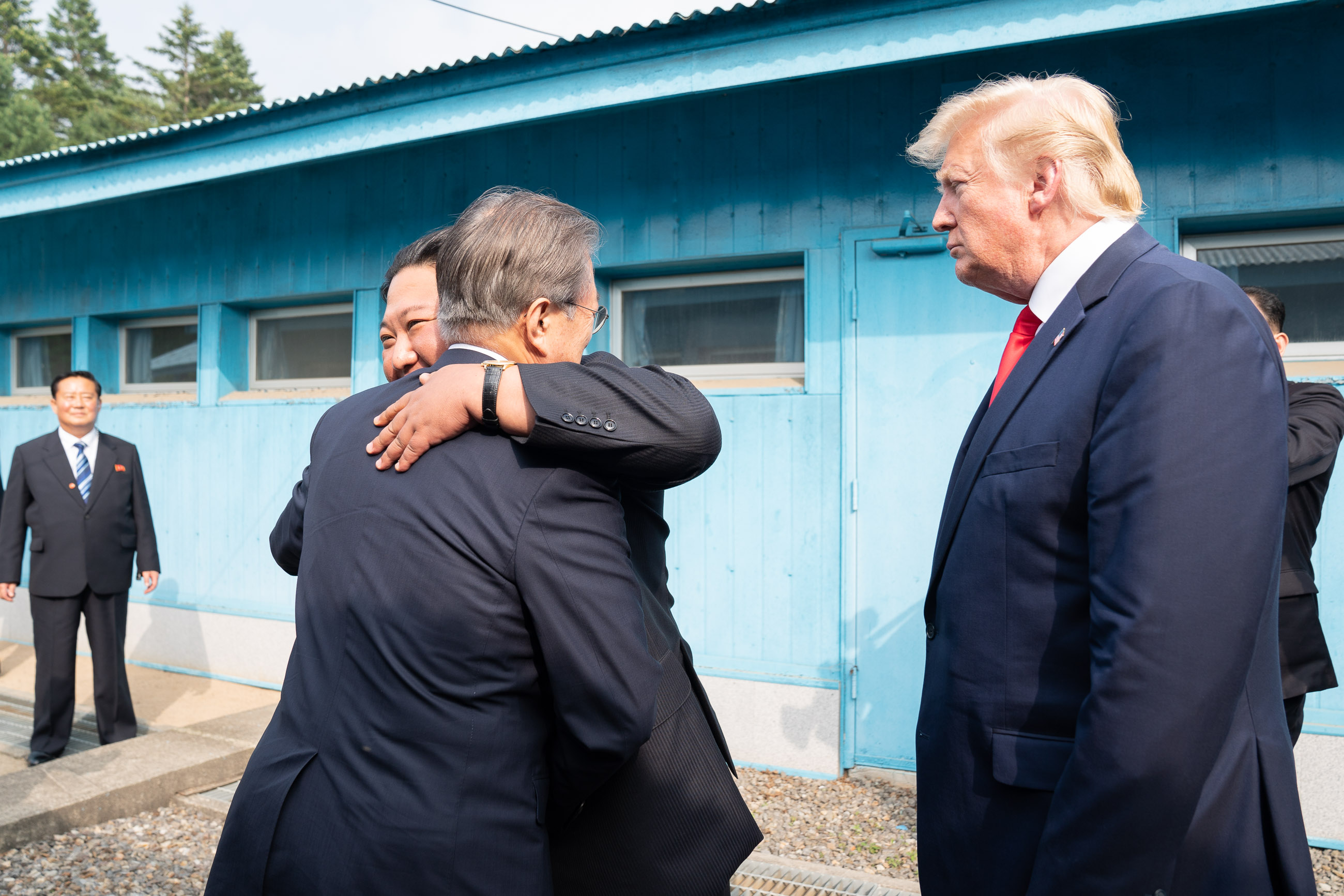 President Donald J. Trump and Republic of South Korea President Moon Jae-in bid farewell to Chairman of the Workers’ Party Kim Jong Un Korea Sunday, June 30, 2019, at the demarcation line separating North and South Korea at the Korean Demilitarized Zone. (Official White House Photo by Shealah Craighead)